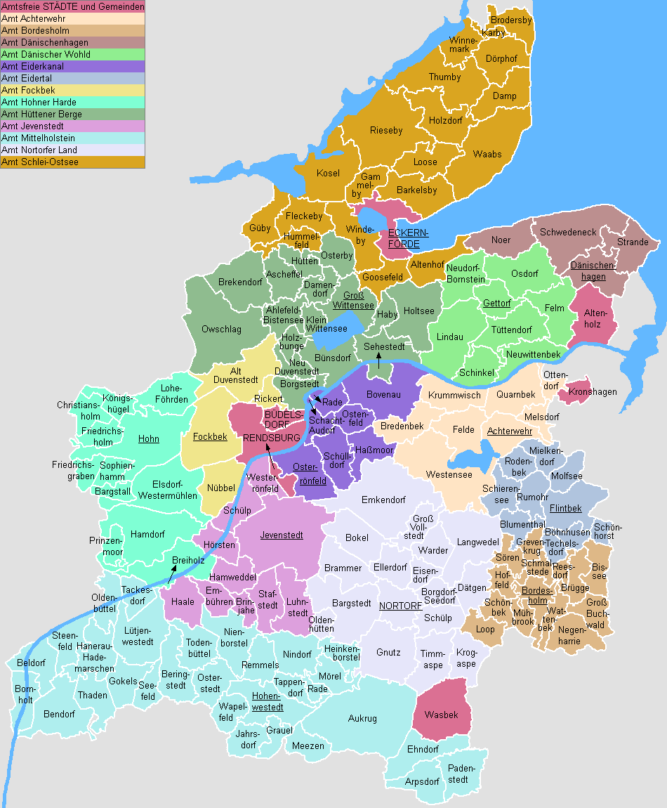 This map shows the Ämter (counties) and Gemeinden (municipalities) in the Kreis (district) Rendsburg-Eckernförde in Schleswig-Holstein, Germany.